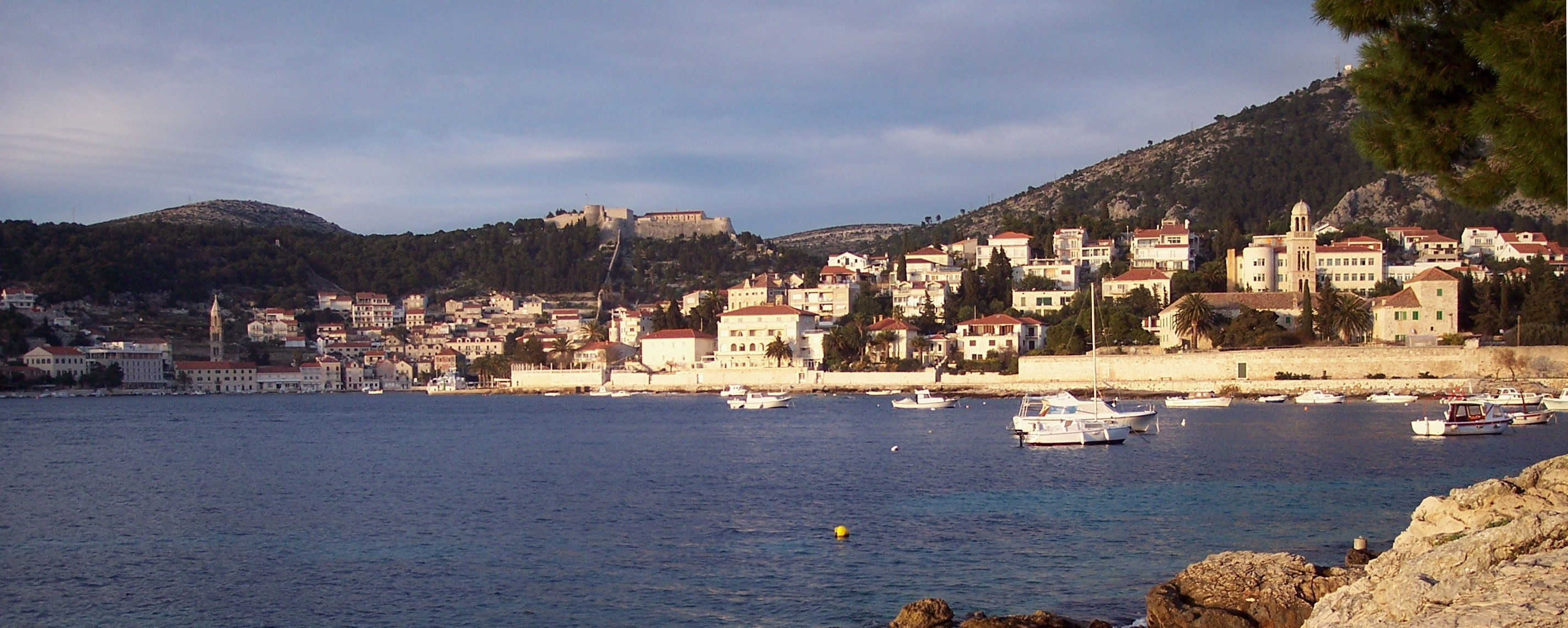 Hvar town seen from the south